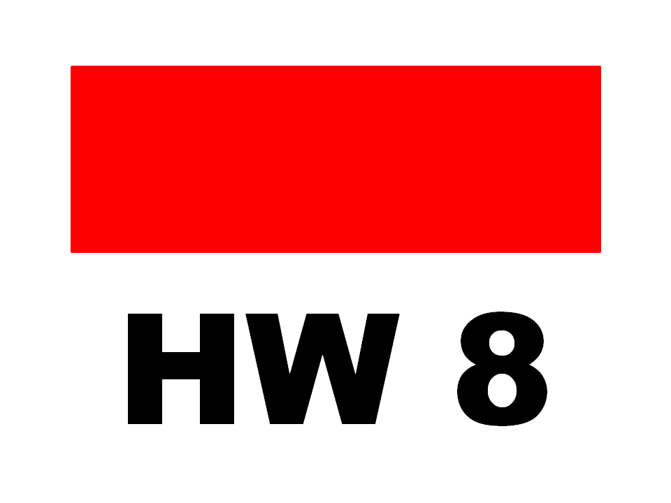 Germany - Baden-Württemberg/Bavaria: "Frankenweg", hiking sign "HW 8"